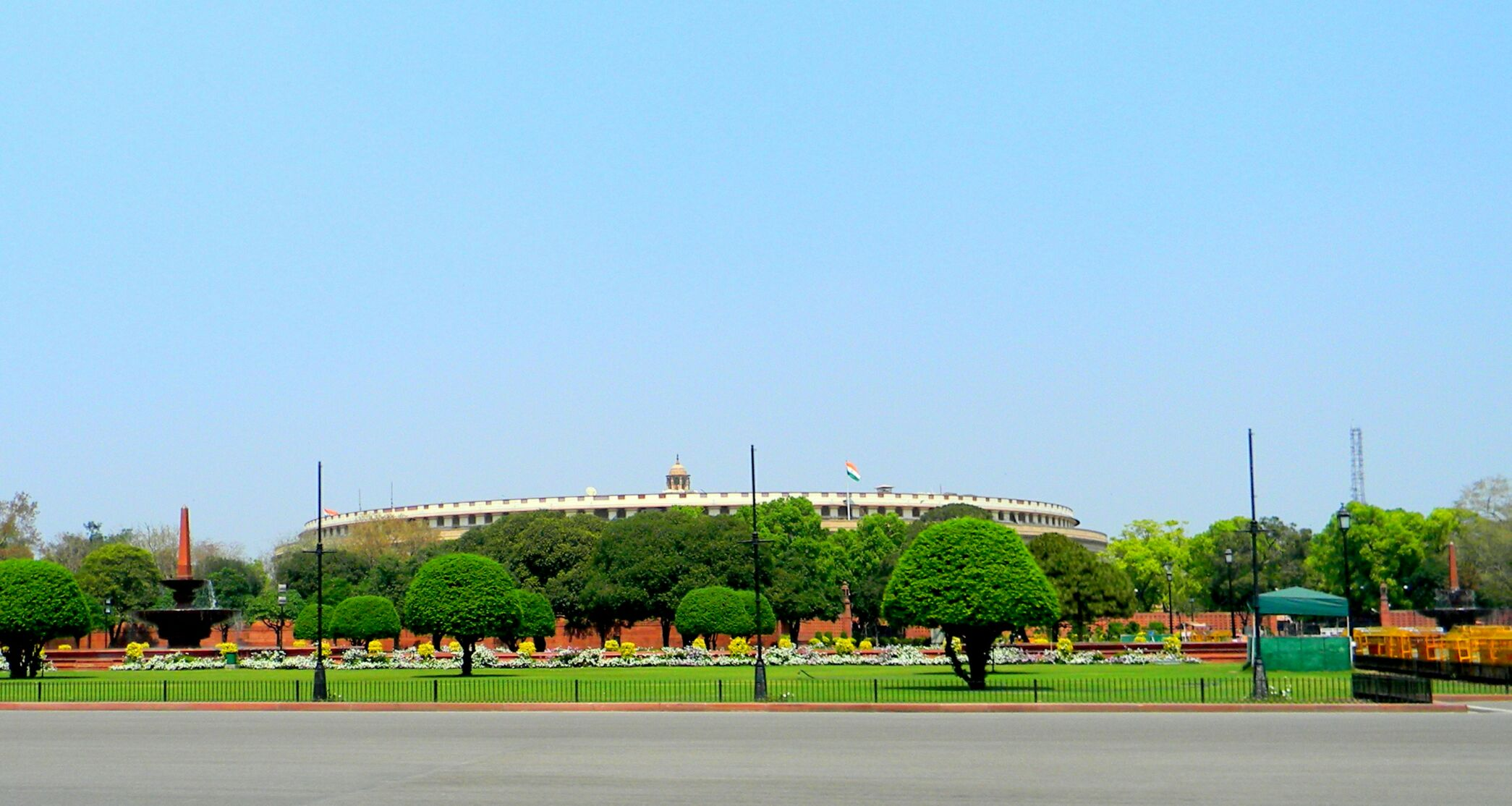 Parliament Of India